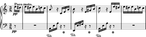 Opening phrase of Für Elise